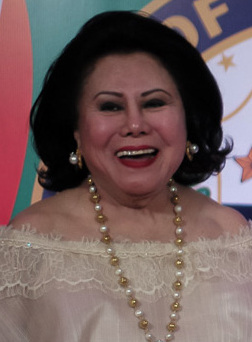 Former and present senators convened last Wednesday, October 6, to celebrate the Senate of the Philippine’s centennial anniversary and its hundred-year legacy of serving the Filipino nation. Around 40 incumbent and former members of the Senate attended the Senate Centennial Dinner and Reunion held at the old Congress building, which now houses the National Museum in Manila.